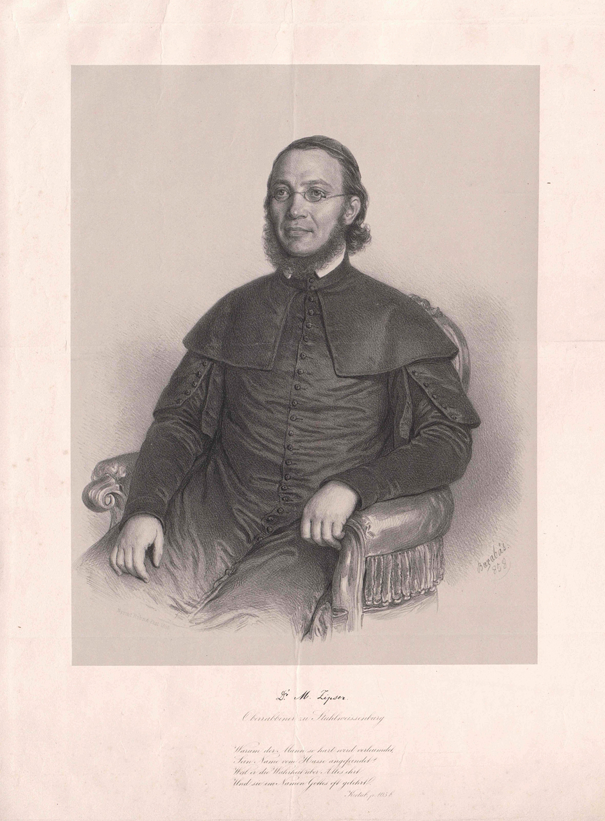 Maier Zipser (1815–1869), Rabbi in Stuhlweissenburg/Székesfehérvár and Rechnitz